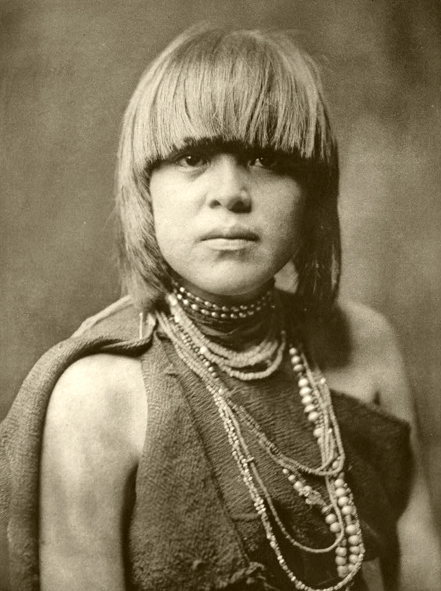 Povi-Tamu ("Flower Morning") — San Ildefonso Pueblo, New Mexico.